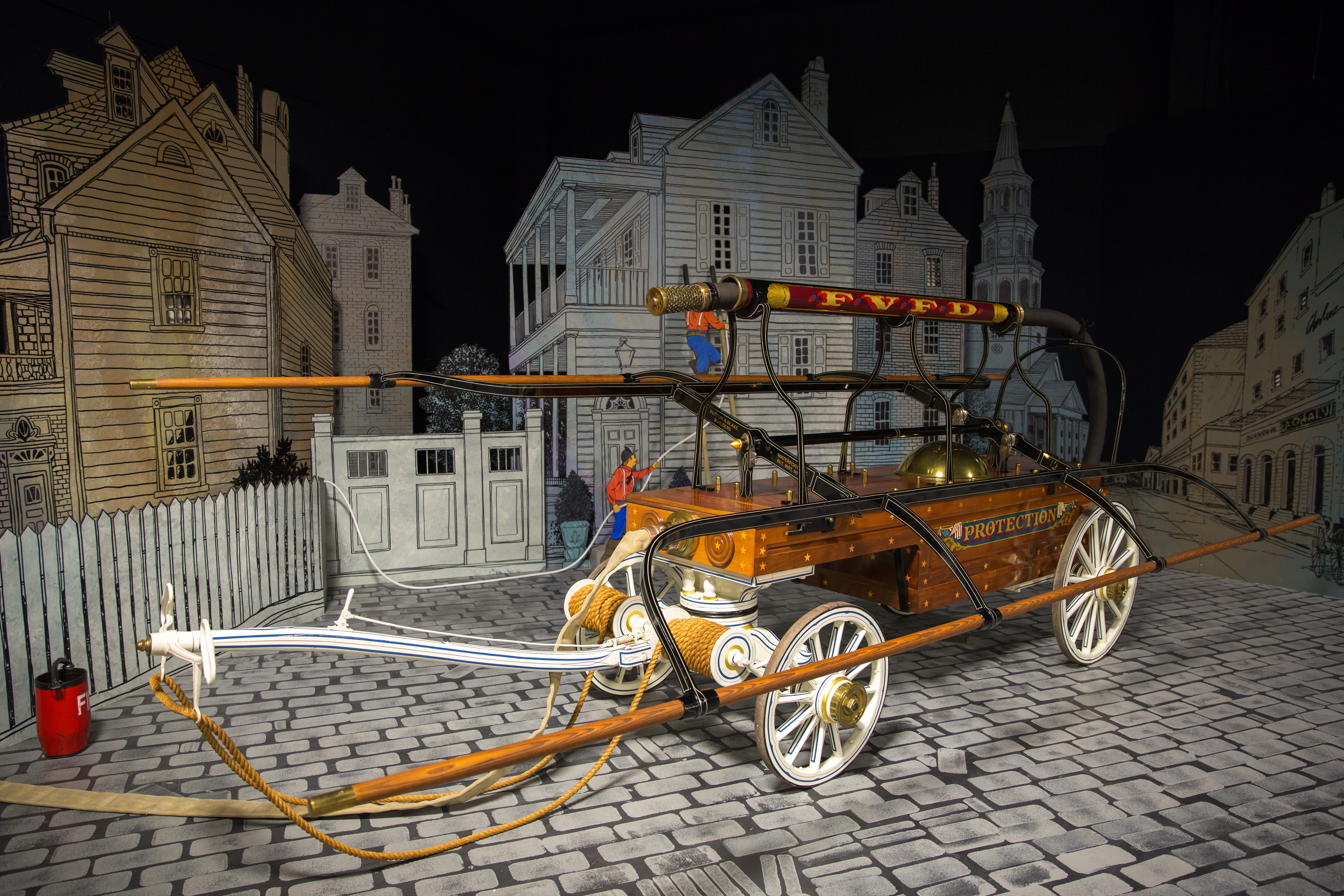 The North Charleston and American LaFrance Fire Museum and Educational Center houses the largest collection of professionally restored American LaFrance fire apparatus in the country. The museum opened to the public in 2007 and currently houses 18 fire trucks and priceless, one of a kind firefighting artifacts. Complete with interactive exhibits featuring real smoke, hands on displays, a 40 person theater, children’s play area and fire truck simulator the North Charleston and American LaFrance Fire Museum proves to be a remarkable experience and an unforgettable destination for everyone. Photo by Ryan Johnson